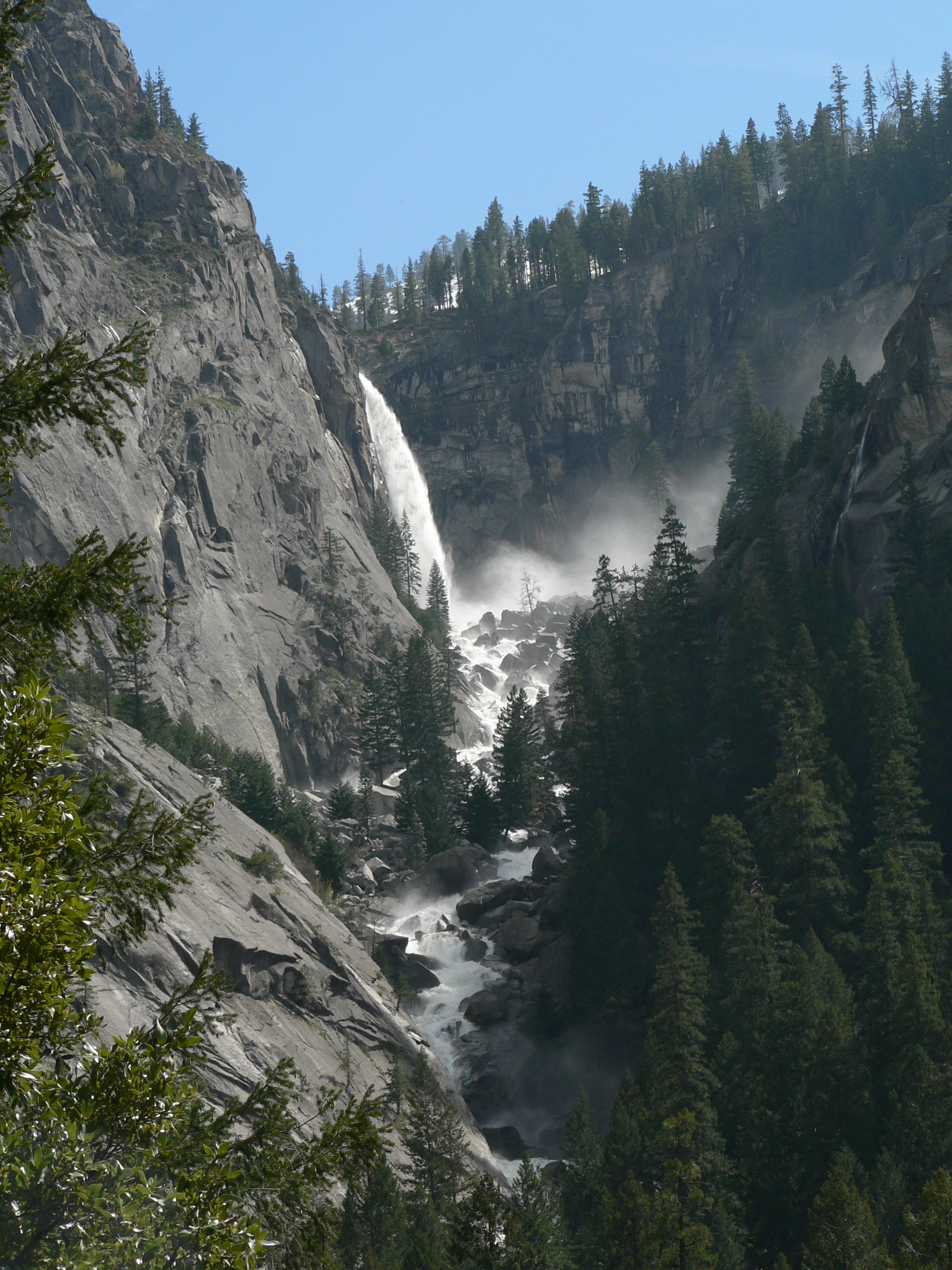 Illilouette Fall and Illilouette Gorge, Panorama Cliff (left)